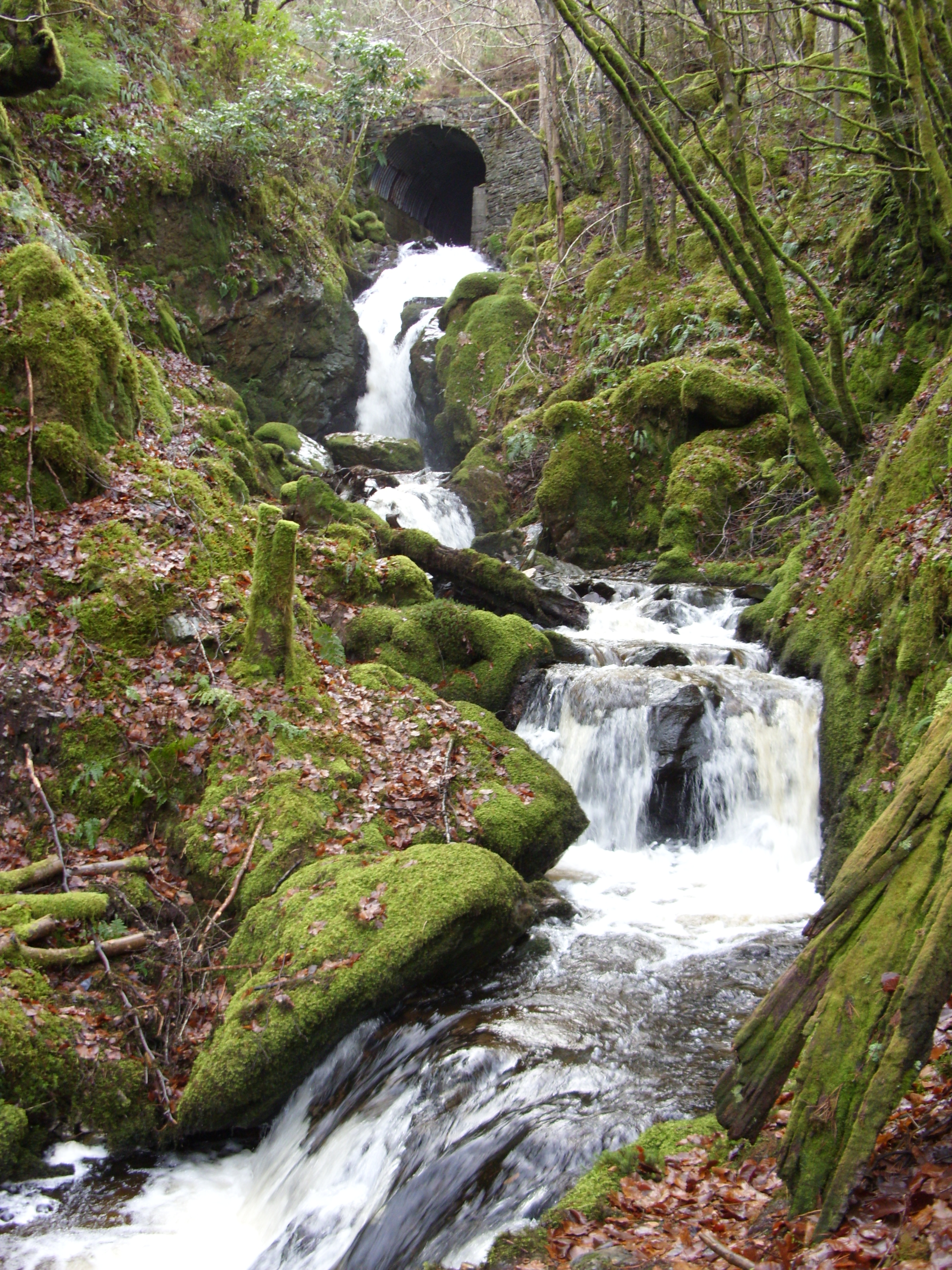 Waterfall found on the gentlemans walk on the Hafod estate.